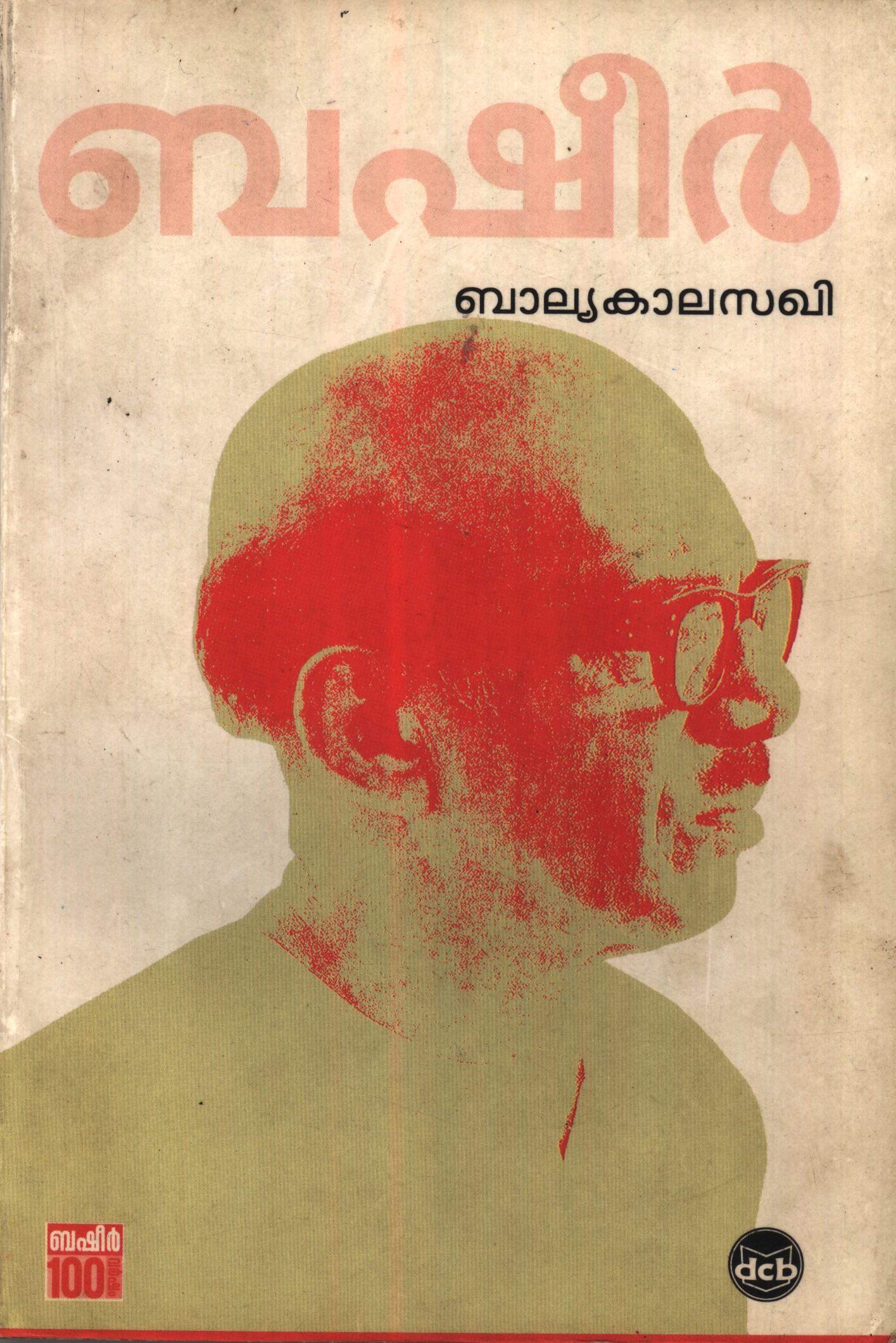 Cover page of the malayalam novel Balyakalasakhi by Vaikom Muhammad Bashir